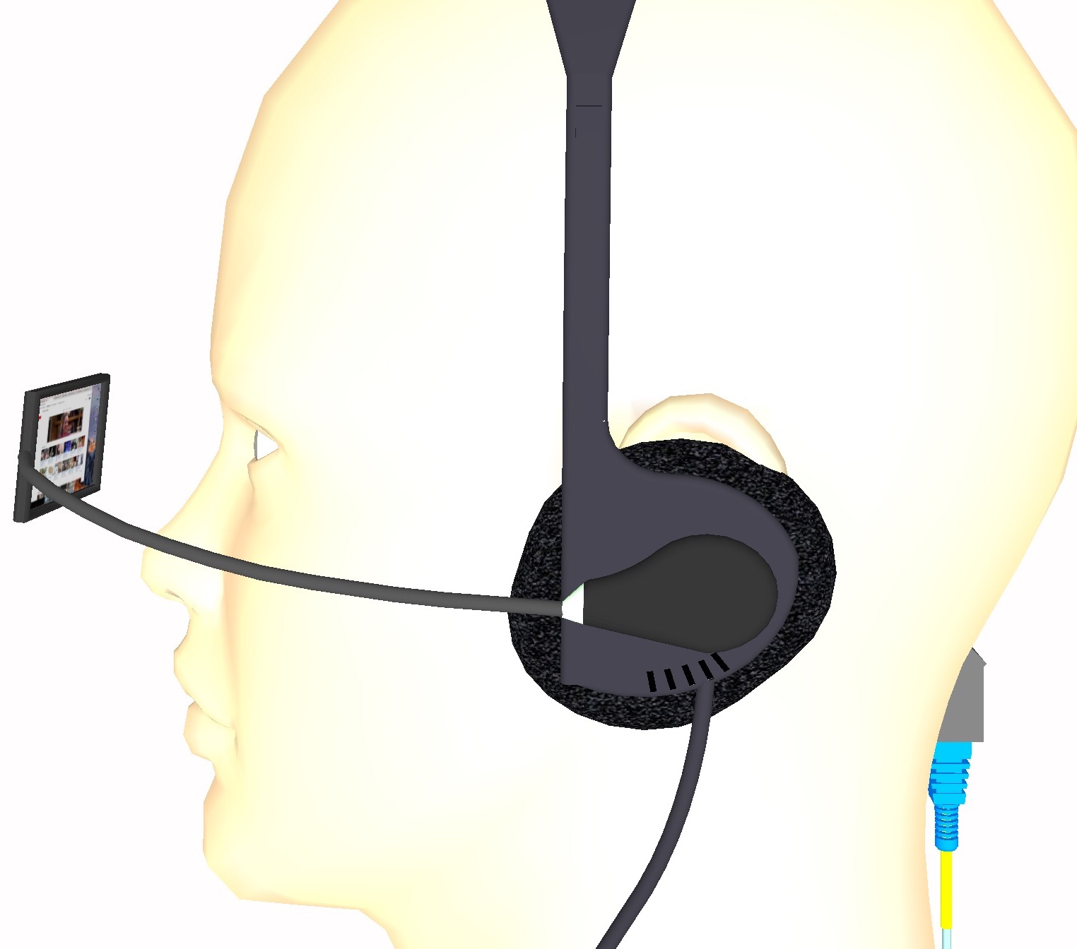 Brain-computer interface